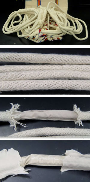 hammock ropes containing heroin